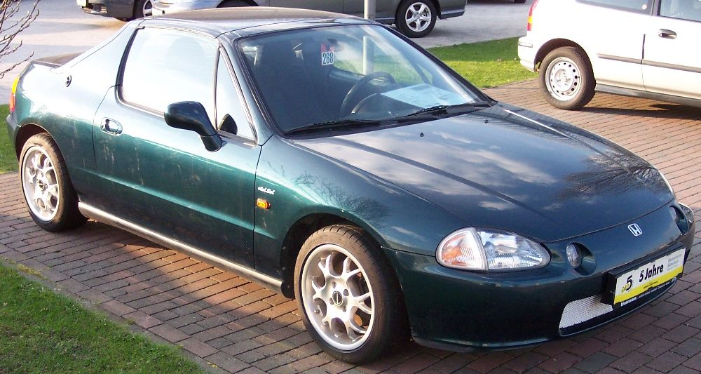 Honda CRX